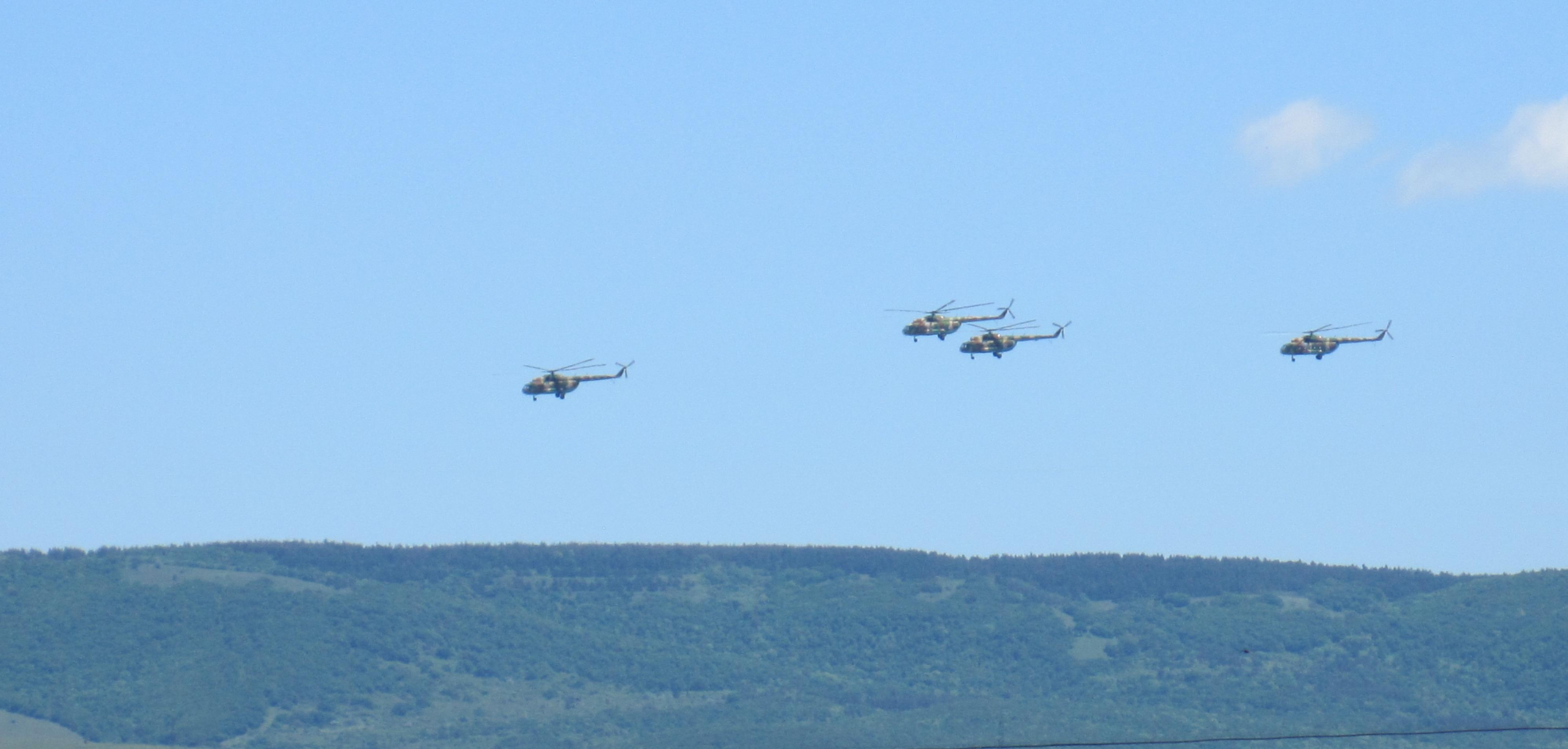 Georgian Air Force helicopters fly over the outskirts of Tbilisi to the Independence Day parade on May 26, 2010